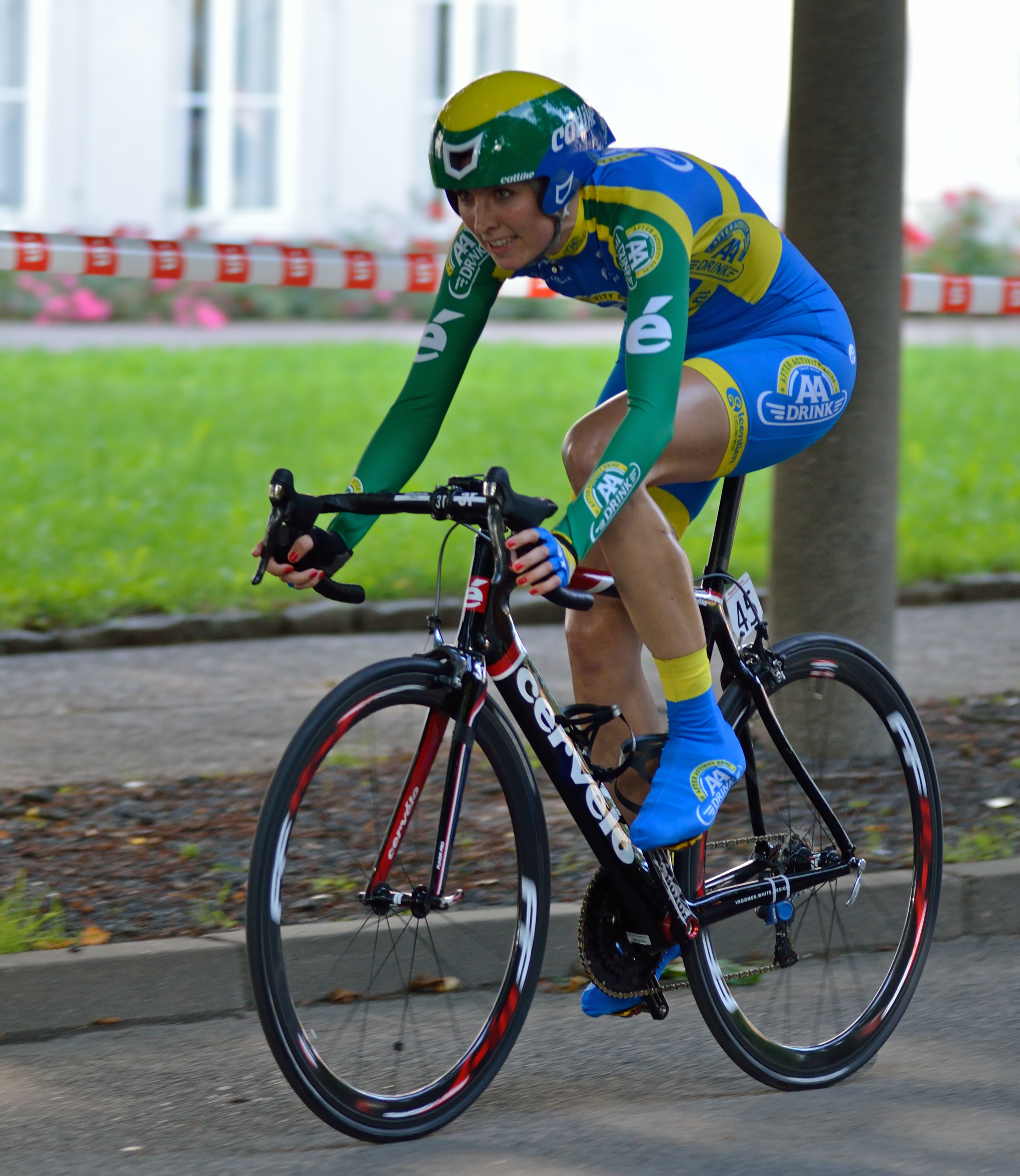 Marijn de Vries from the AA Drink-leontien.nl team during the Women's Tour of Thuringia 2012 in Zwickau, Germany.